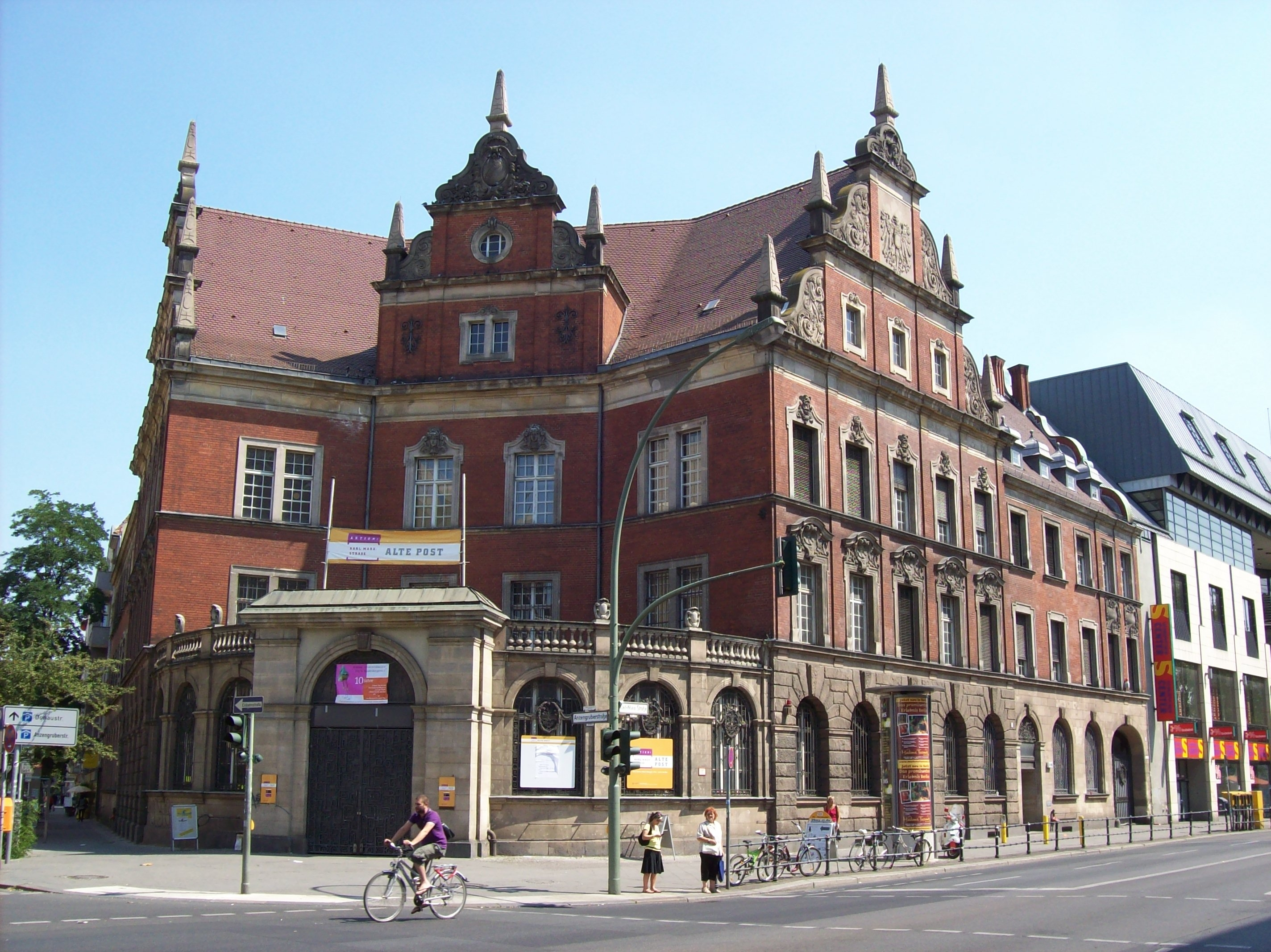 The Alte Post on Karl-Marx-Straße in Berlin-Neukööln